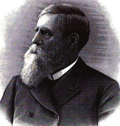 Edwin Willitts (Michigan Congressman)